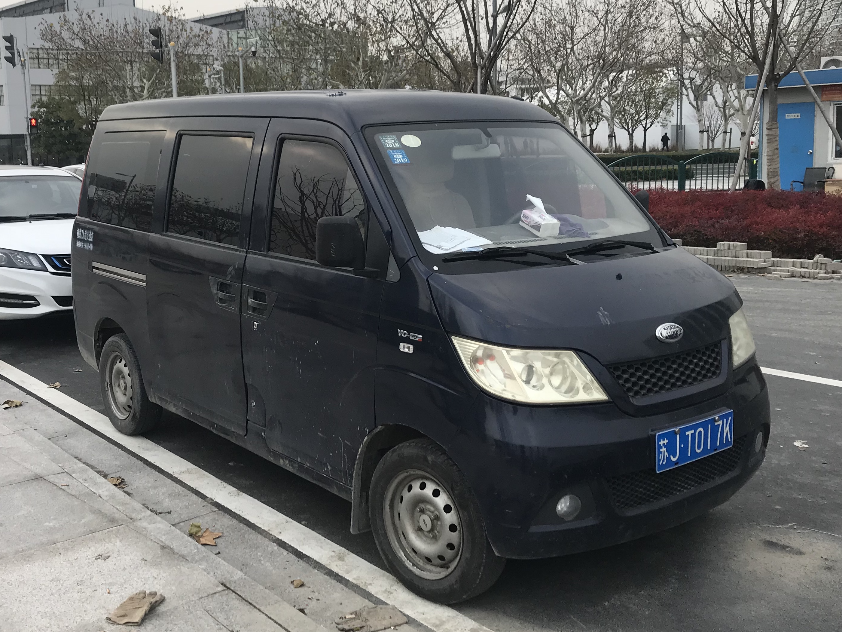 Chery Q22 (Karry Youyou) front